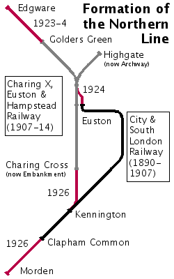 Small diagram of the formation of the Northern Line of the London Underground by Rob Brewer. A Larger and slightly more detailed version of this diagram can be found at Image:Formation of the Northern Line.png